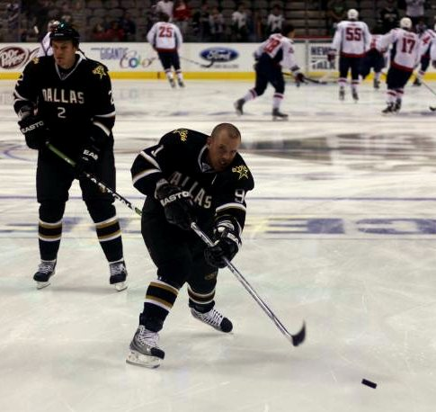 Brad Richards, playing for the Dallas Stars, #2 Niklas Grossman standing in the background. Also visible are players of the Washington Capitals.